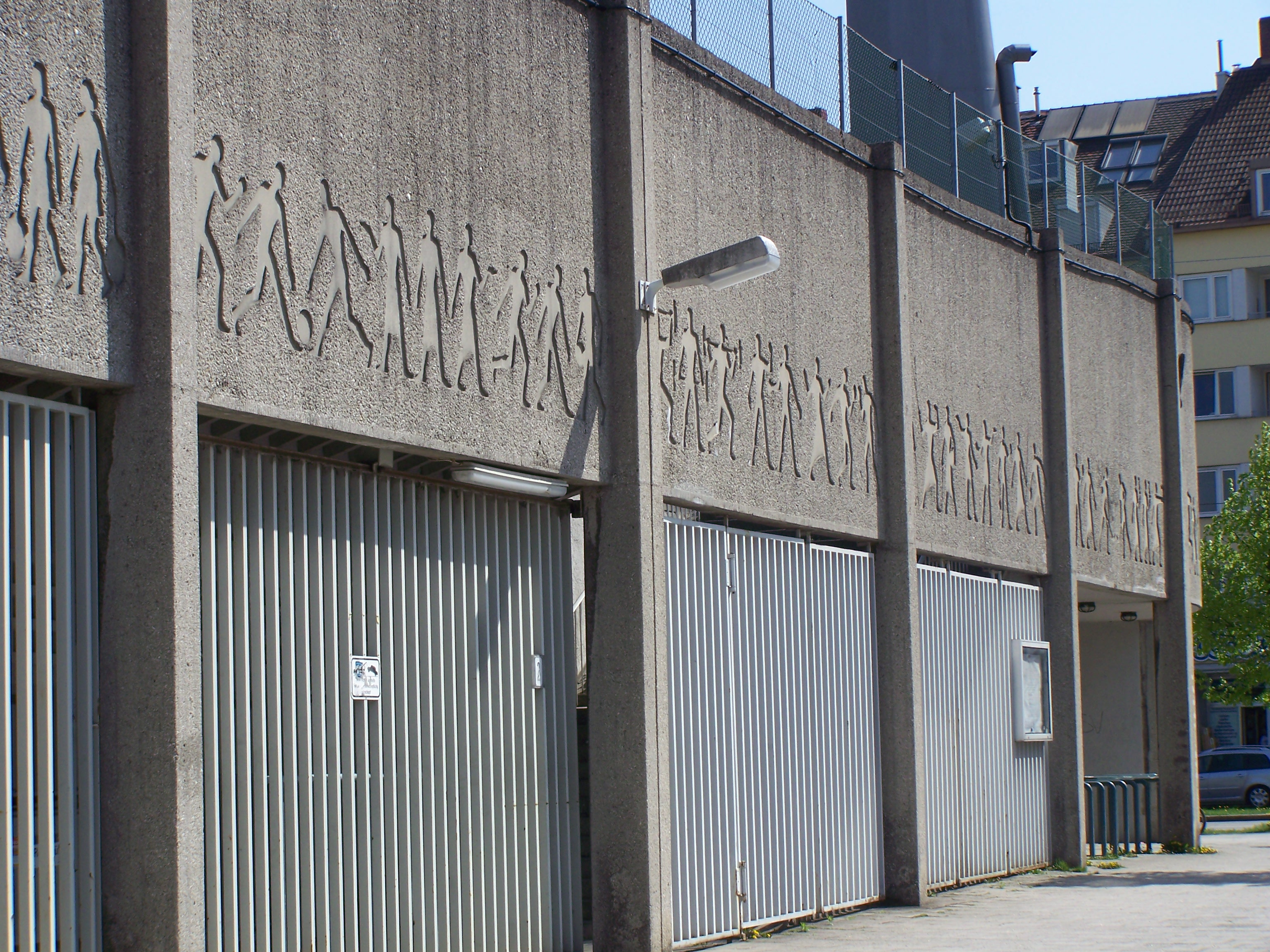 Reliefs at the Städtische Stadion an der Grünwalder Straße in Munich